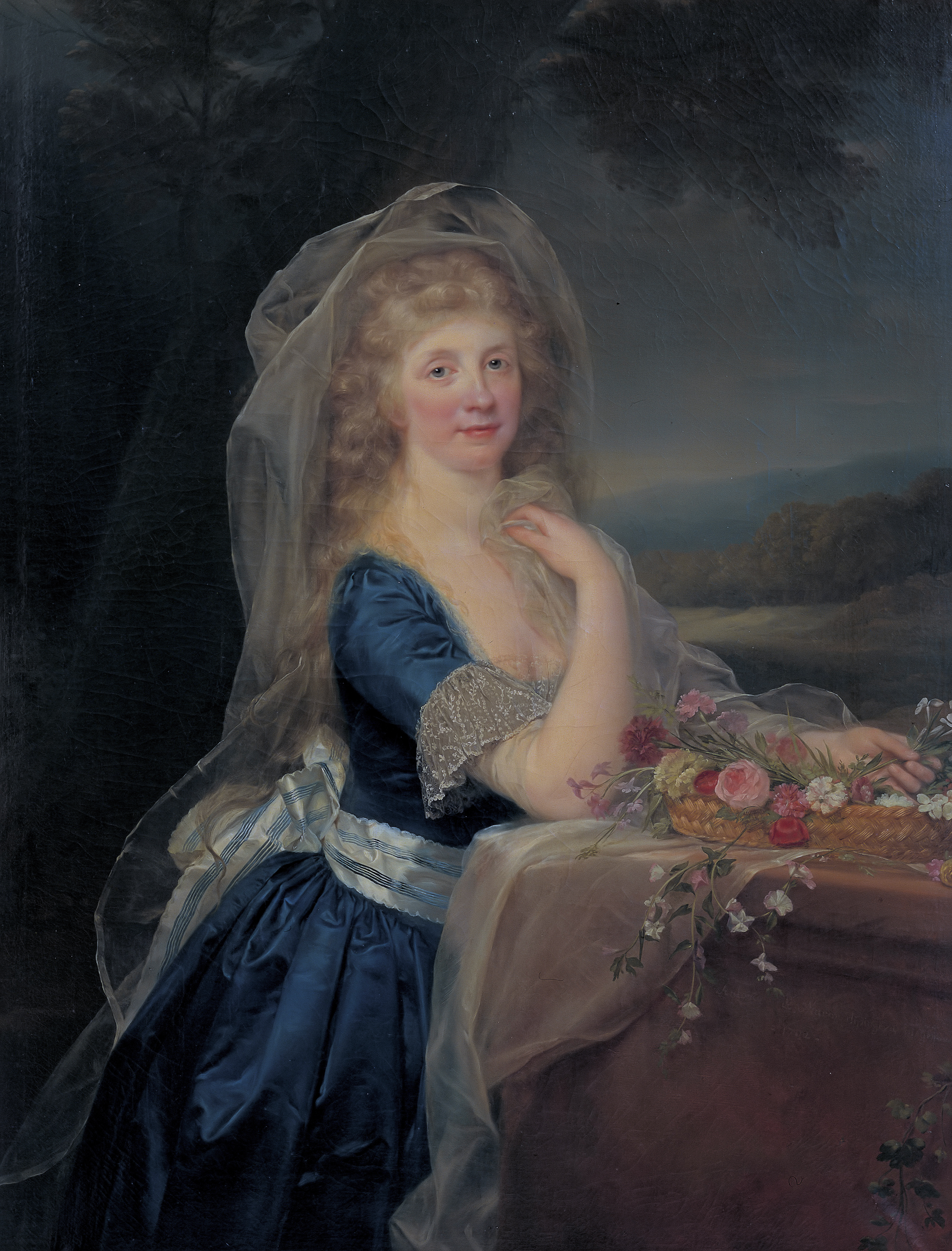 Anna Pieri Brignole-Sale oil on canvas 64 x 50 cm